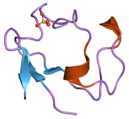 Cartoon representation of the molecular structure of protein registered with 8rxn code.